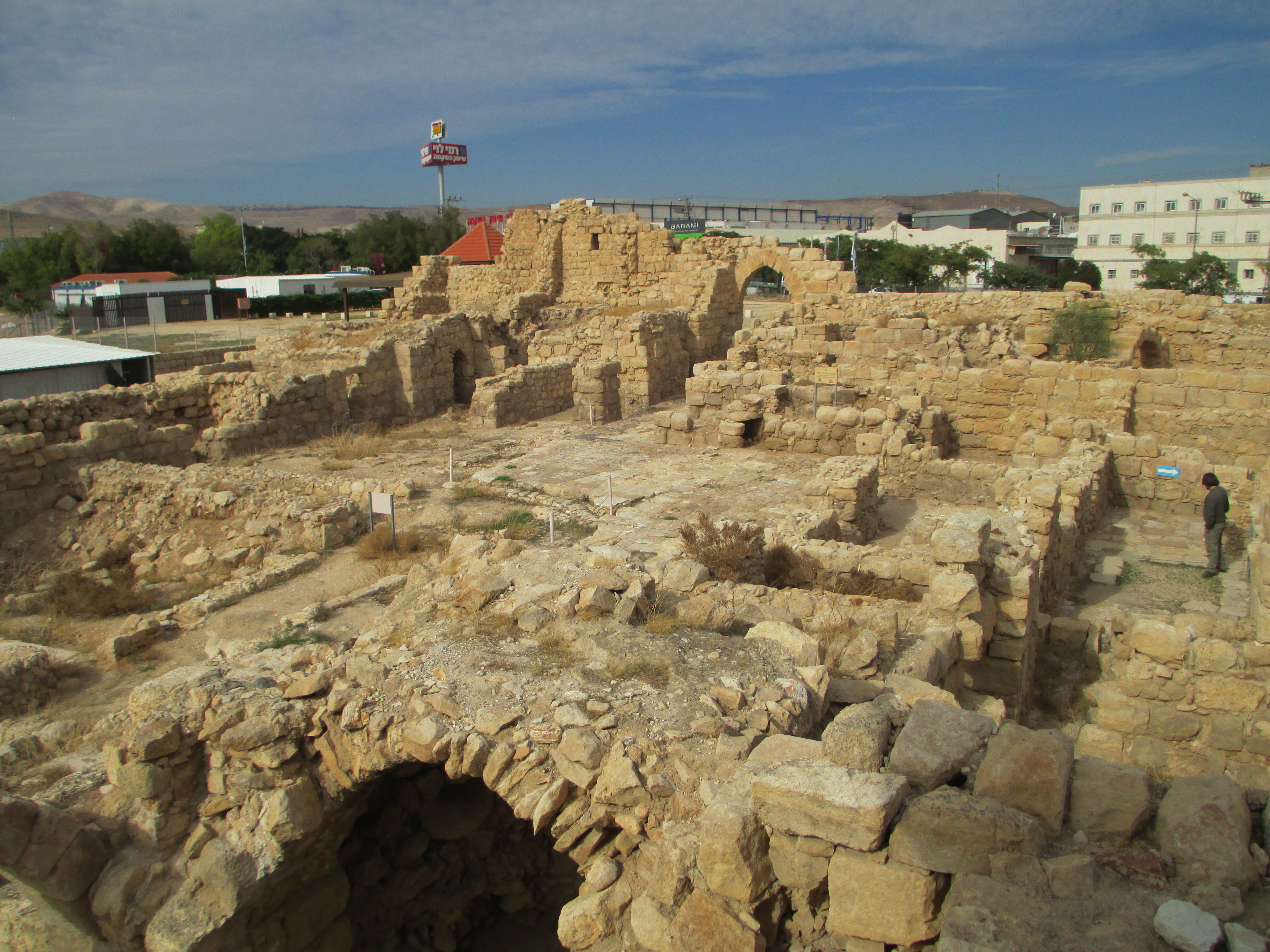 Euthymius Monastery